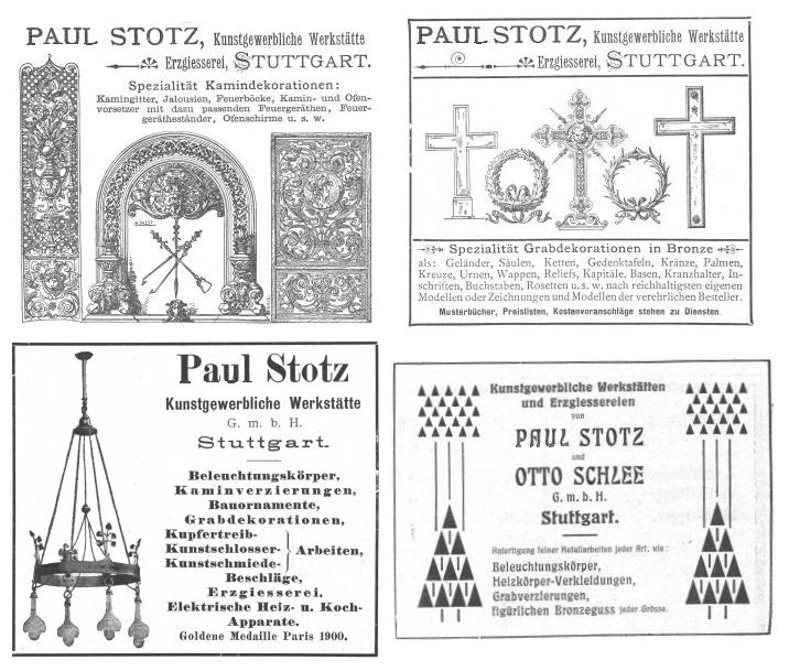 Advertisement of Paul Stotz Foundry Stuttgart in the Swiss Journal 'Schweizer Bauzeitung' 1894-1906